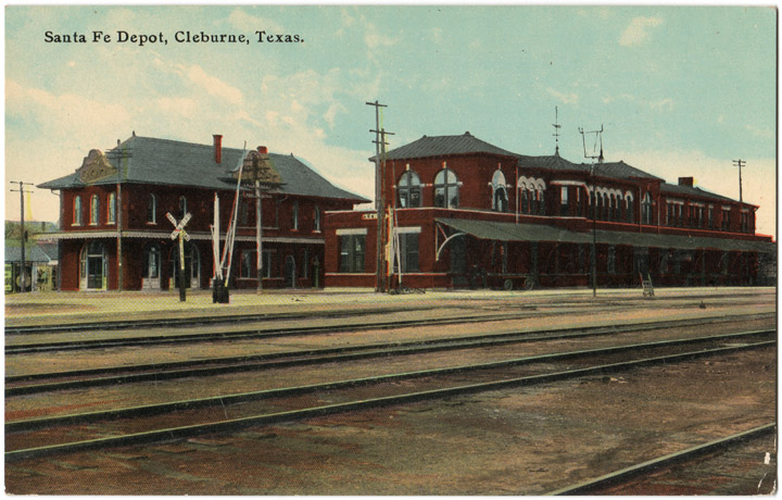 Harvey House and train depots in Cleburne, Texas